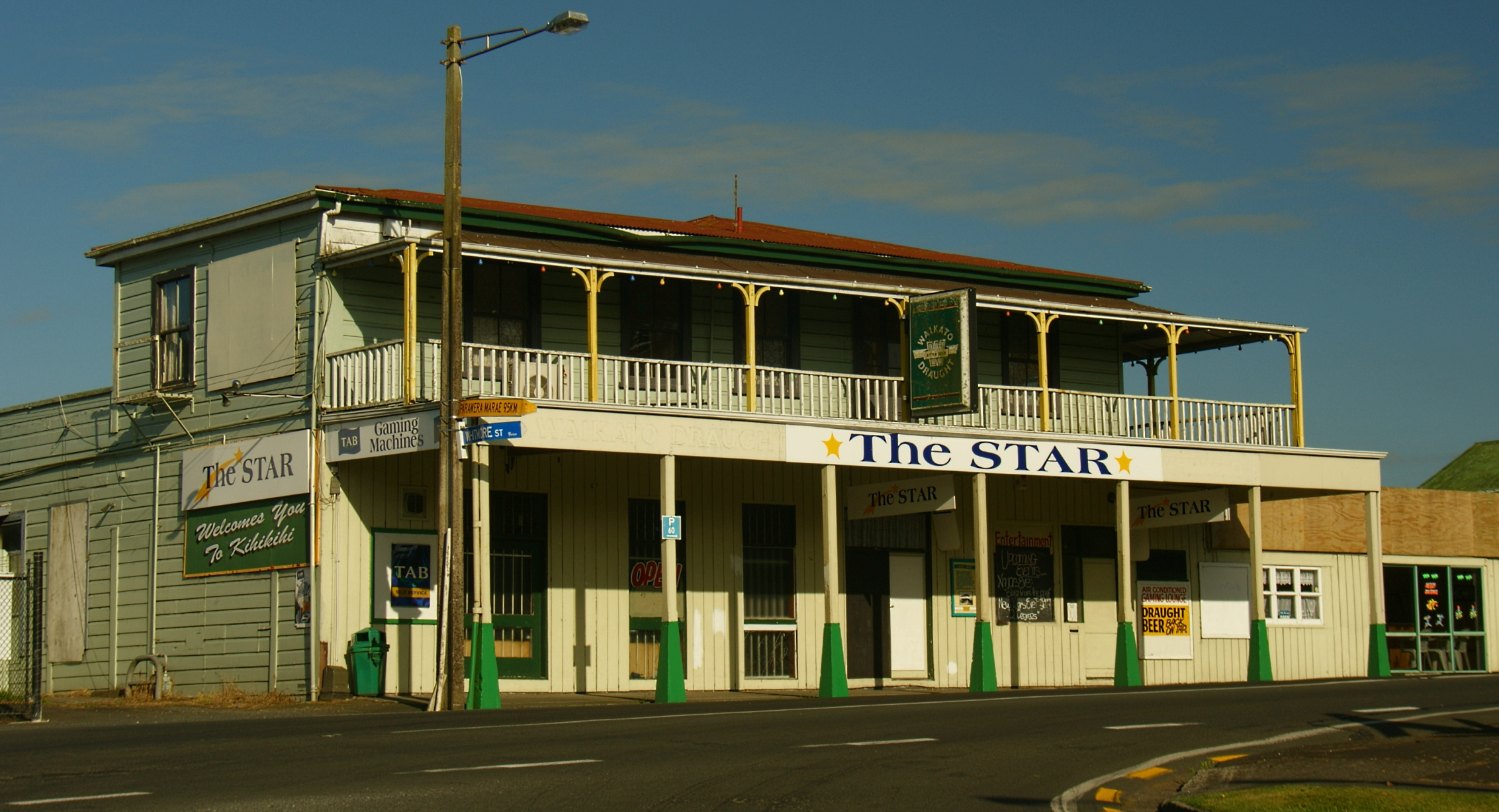 The Star opened in July l883, described as having "22 rooms, an upper floor with l2 comfortable single and double rooms, a good bathroom and a cosy drawing room. The passages were wide and lofty and a balcony ran round the upper storey. The ground floor had four private sitting rooms, a billiard room, dining room, bar and kitchen. The dining room could seat 40 comfortably and three of the sitting rooms had a fireplace." At some stage stables were added, for in l887 it was reported they caught fire.